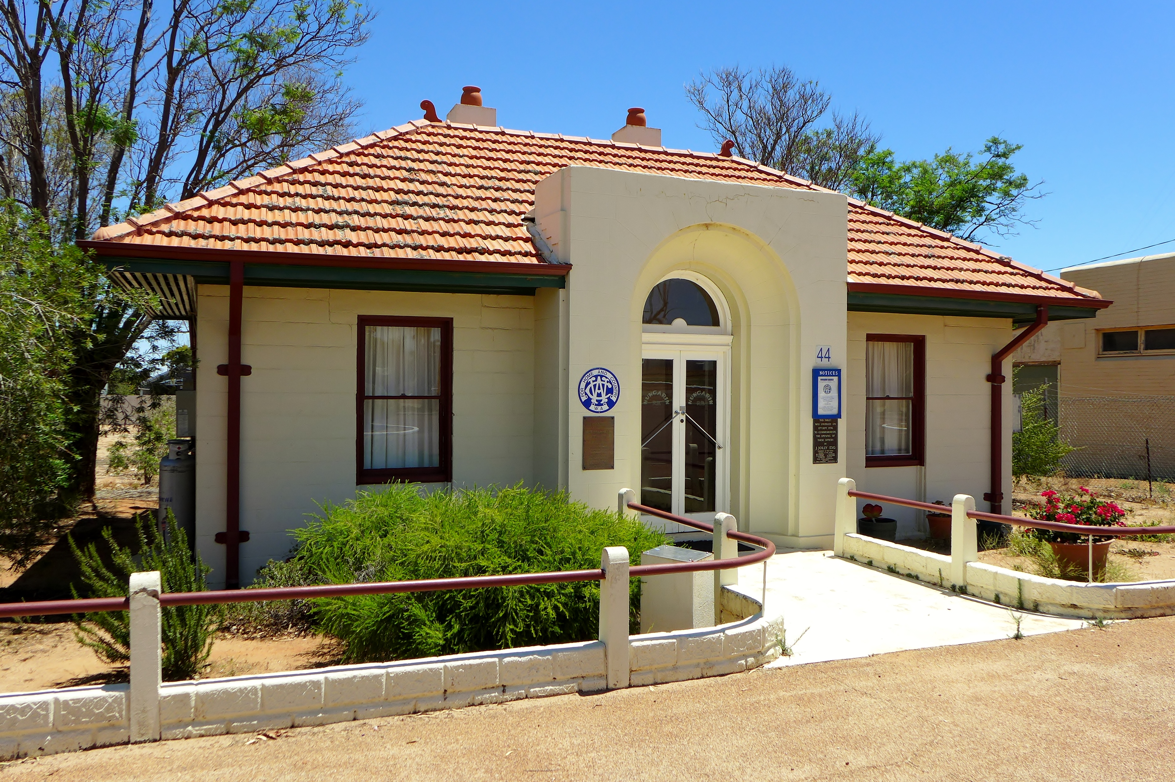 View of the Alice Williams Memorial Building in Nungarin, Western Australia. The building served as the Road Board Office from 1936 to 1968, and has been occupied by the Country Women's Association since 1968. It is representative of the Art Deco style of the 1930s, and the only example of this type in Nungarin.In 1994, the building was named in honour of Alice Williams MBE, a founding member and later State President of the CWA who died in 1972, aged 82.